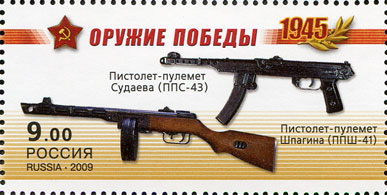 Russian stamp no. 1313 commemorating the 65th anniversary of Victory in the Great Patriotic War, featuring the PPSh-41 and PPS-43.